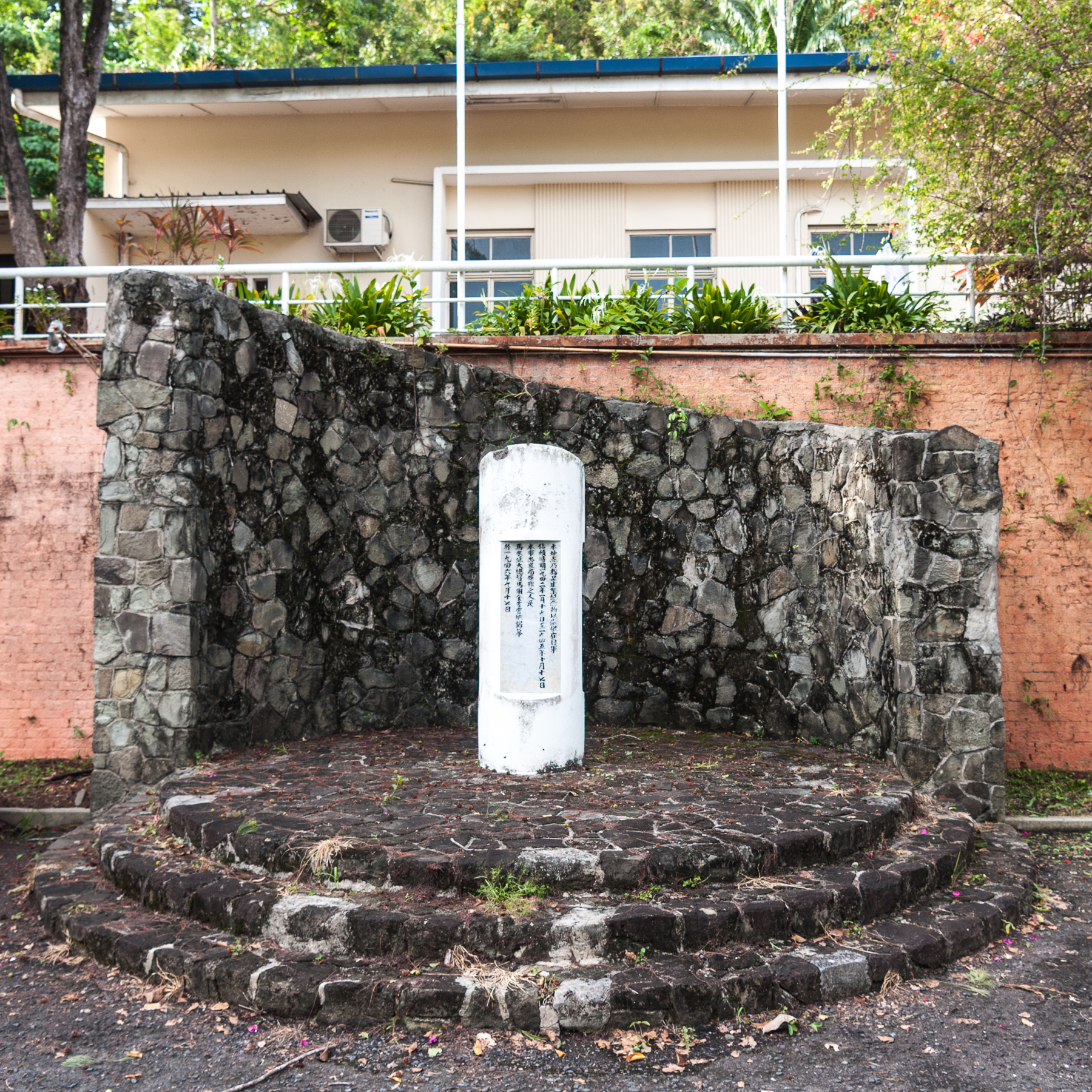 Sandakan, Sabah: original Sandakan War Memorial in front of the Sandakan High Court